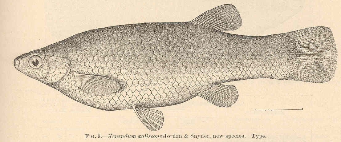 Xenendum xaliscone Jordan & Snyder, new species. Type, valid as Skiffia multipunctata (Pellegrin, 1901) Subject: Xenendum Tag: Fish